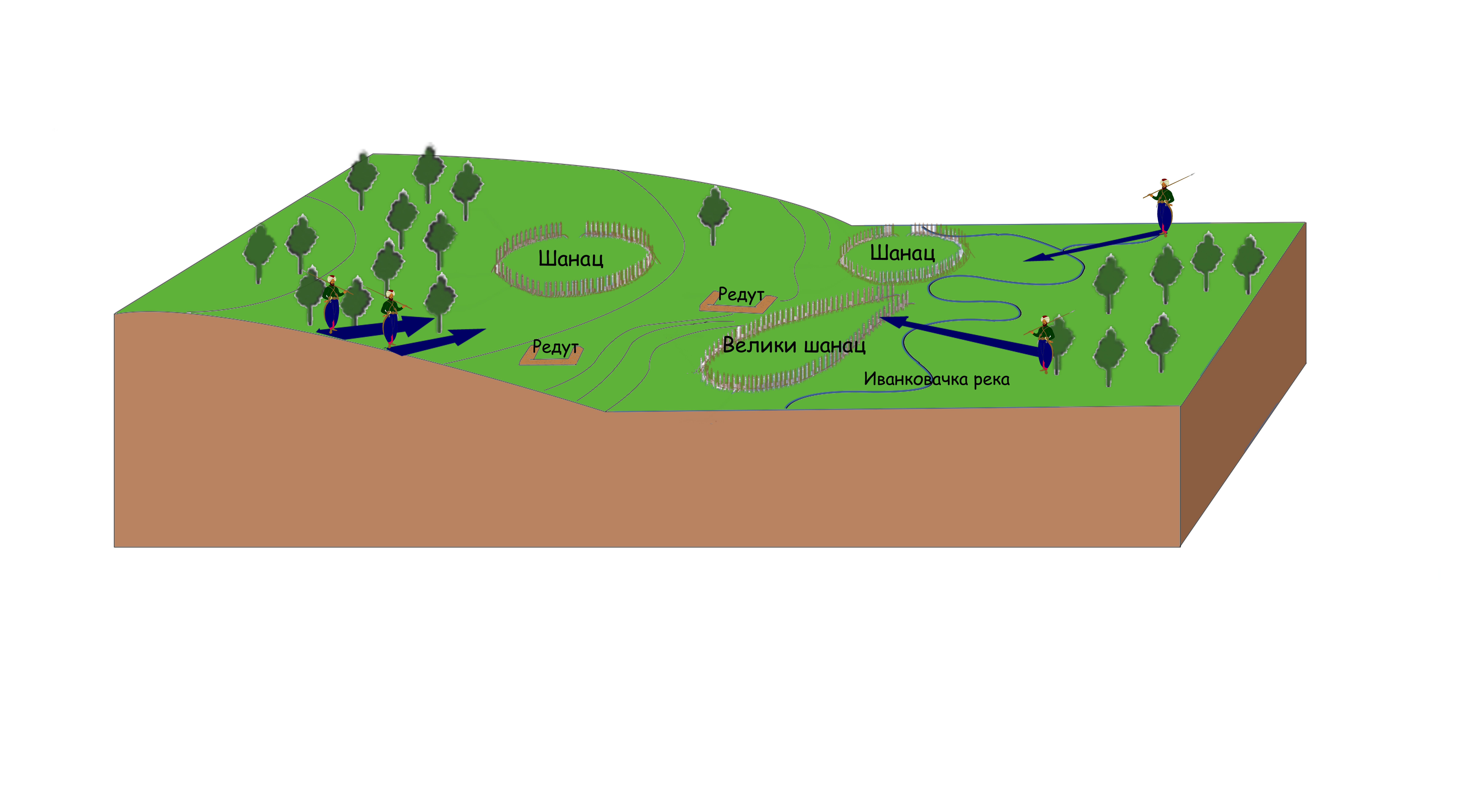 The diagram of topography of battle of Ivankovac with sconce and redoubt earth fortresses